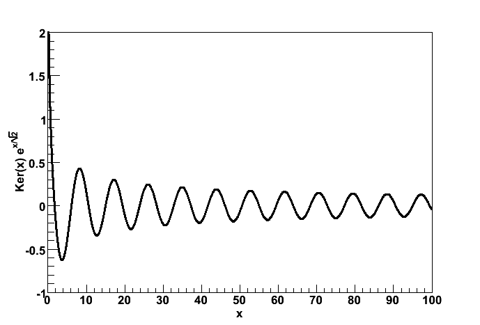 A plot of K e r ( x ) e x / 2 {\displaystyle \mathrm {Ker} (x)e^{x/{\sqrt {2 between 0 and 100.